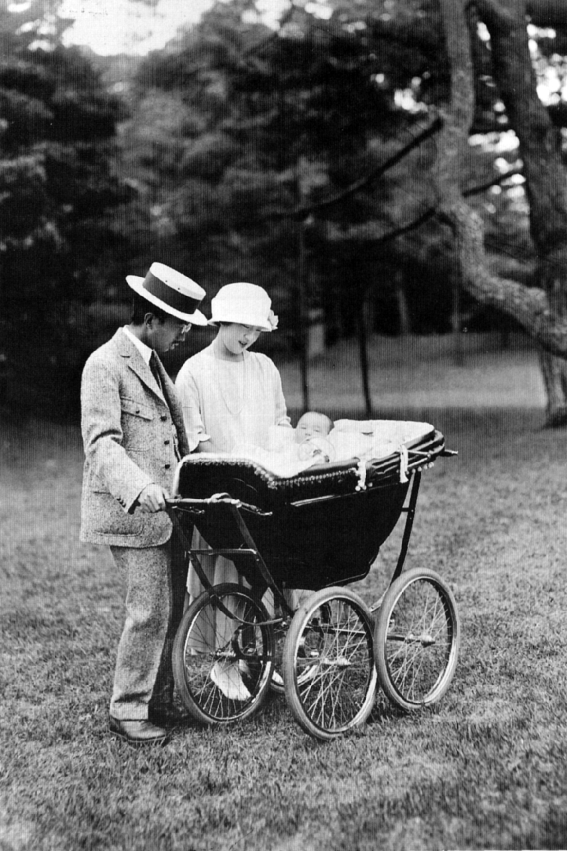 乳母車の中の照宮成子内親王(Teru-no-miya Shigeko)を見やる、皇太子裕仁親王(Crown Prince Hirohito/Emperor Shōwa)と良子妃(Nagako/Empress Kōjun)。赤坂離宮にて。